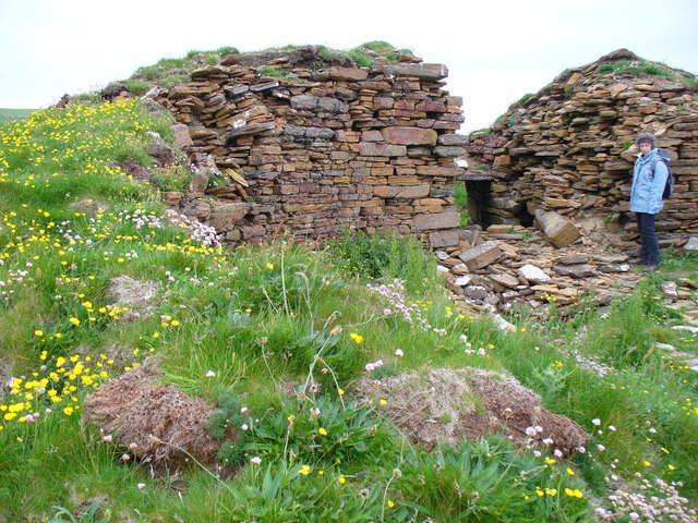 Broch of Borwick Ancient clifftop remains of circular drystone tower house north of Yesnaby.